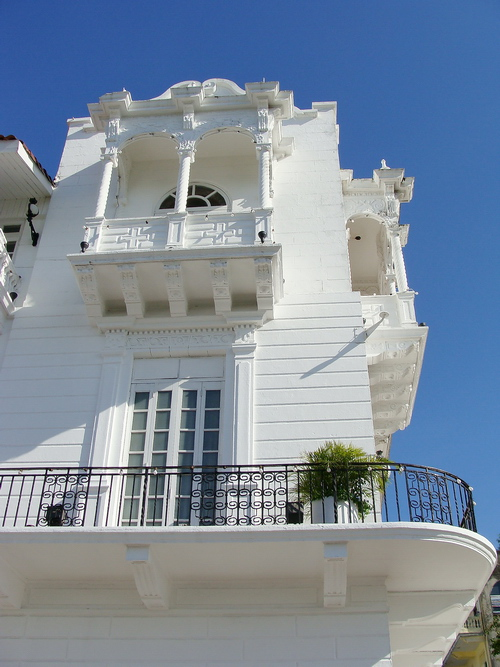 balcony of palacio de las garzas